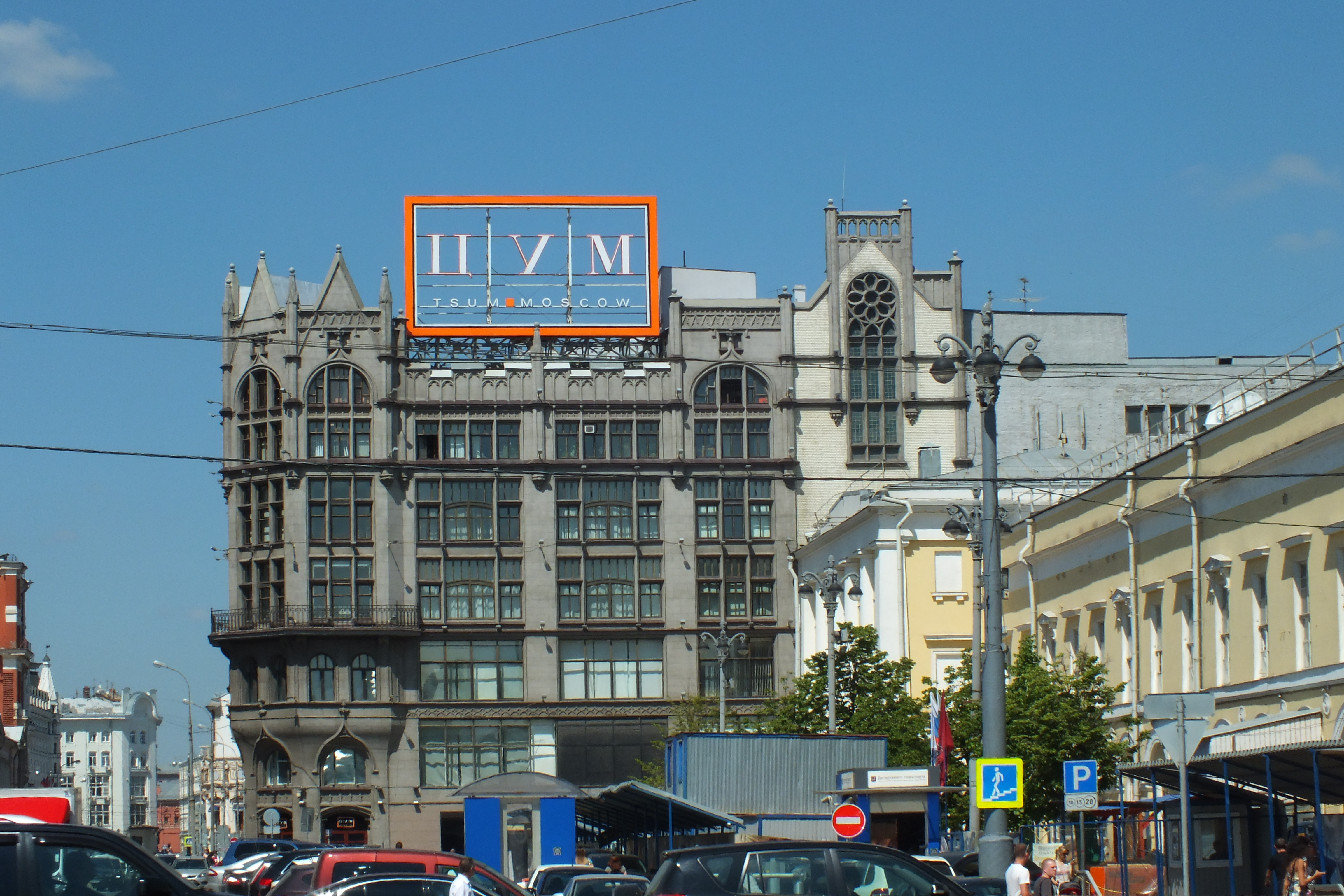 TsUM in Moscow, 23 May 2014